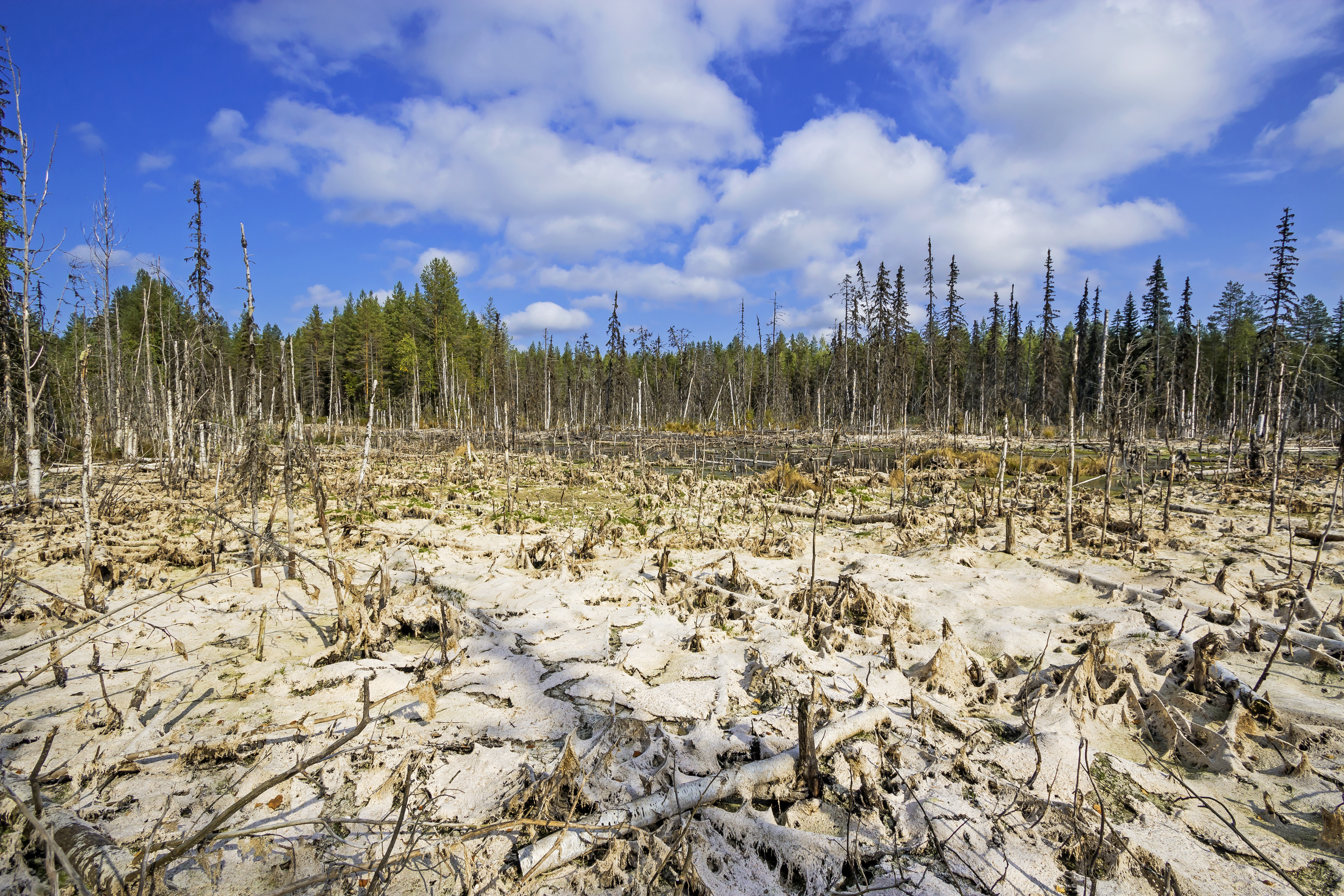 The development of fen (mesotrophic) swamp forests during the dry season. Summer 2018. A strong decrease of groundwater level and the feed stream. In the climatic zone (taiga, forest tundra) of the Arkhangelsk region.